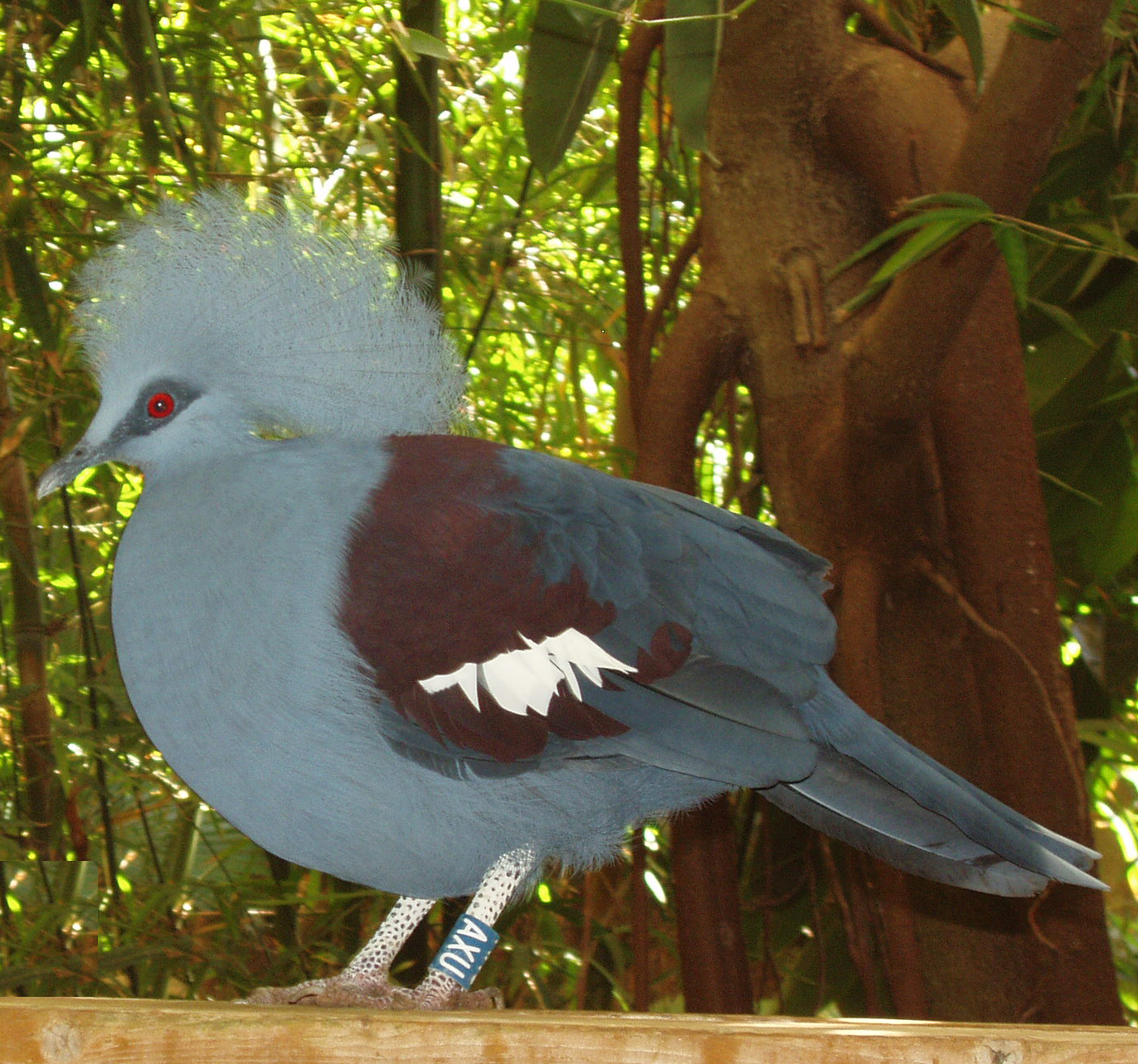 Western Crowned Pigeon Goura cristata